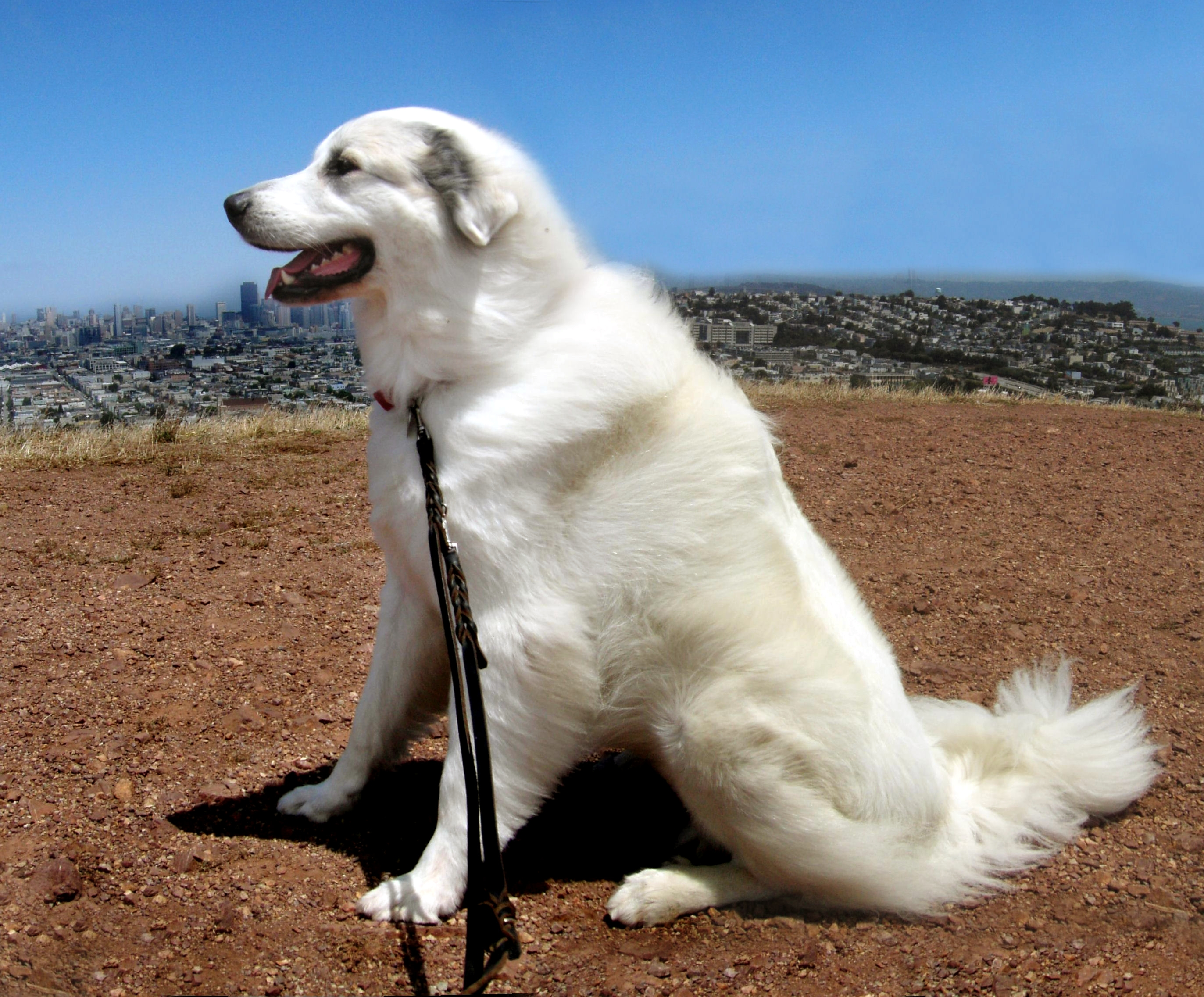 A Great Pyrenees named Nesca sitting.